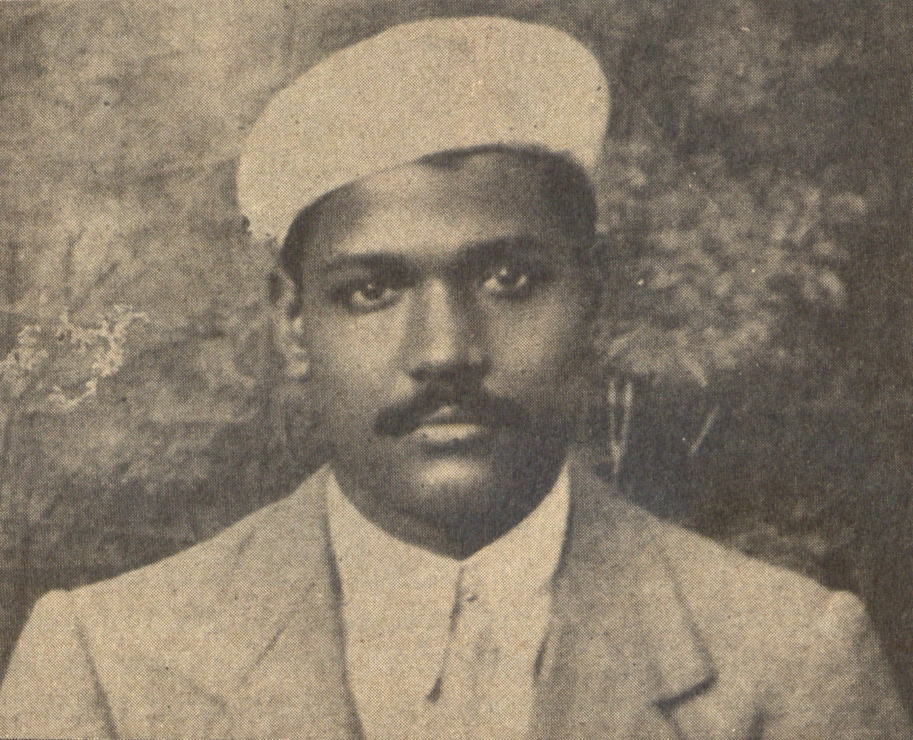 ndian newspaper baron Ramnath Goenka (April 3, 1904 – October 5, 1991) in 1926